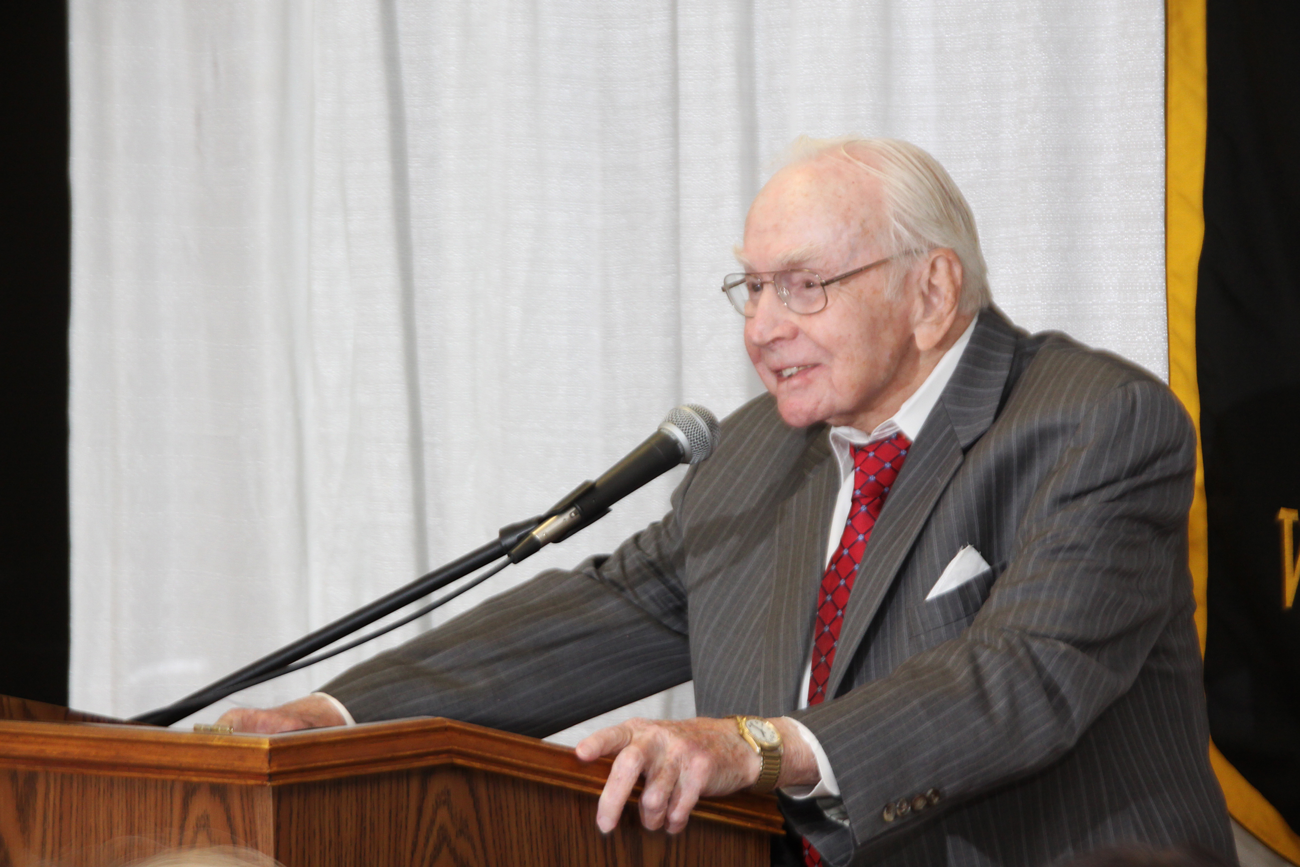 Jim Wright speaks at the 2014 Alumni Awards Luncheon at WC.